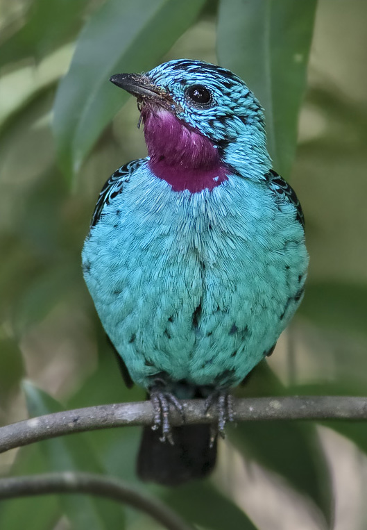 Spangled Cotinga